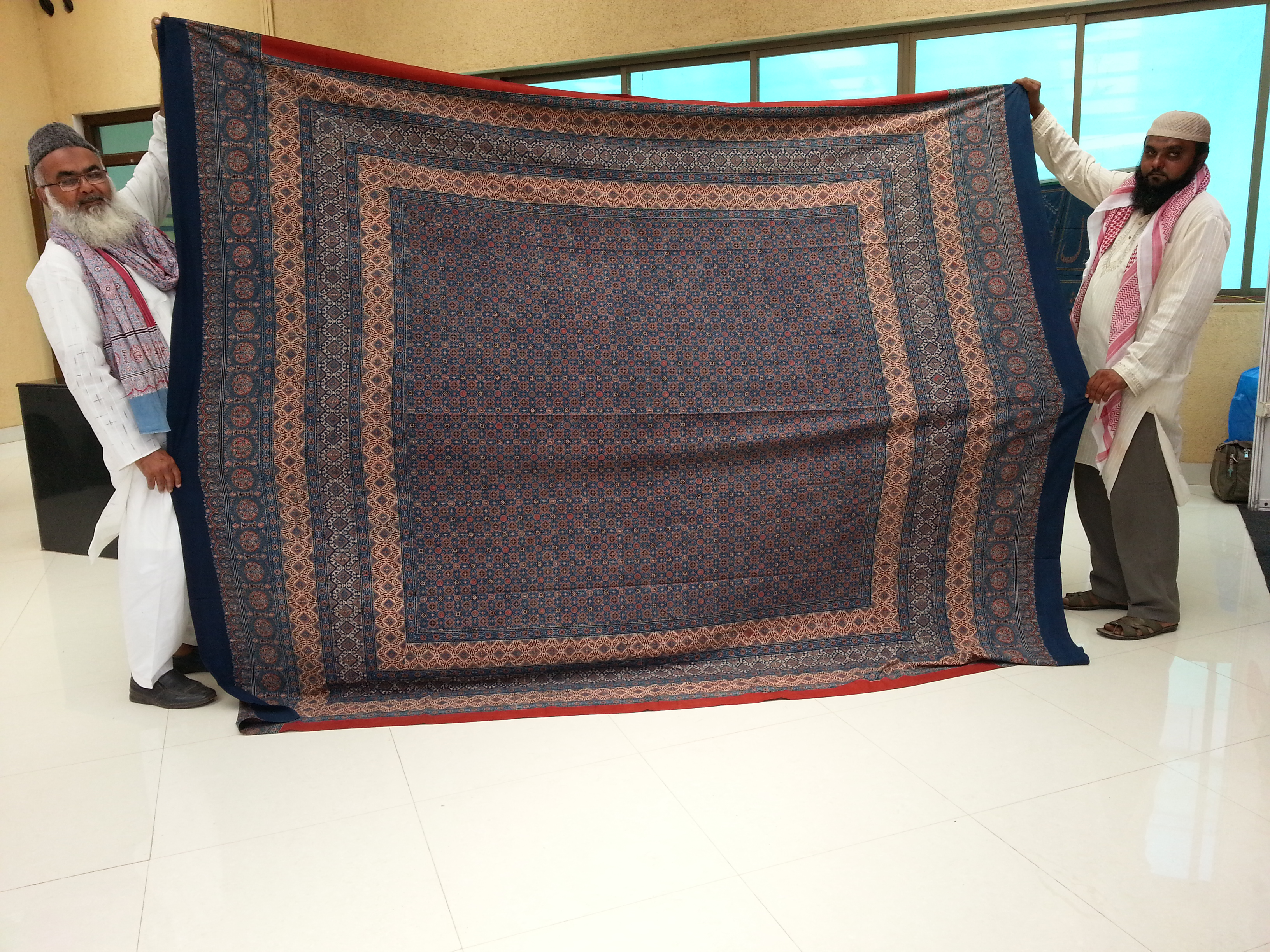 Ajrak craft product made by Kutch artisans in India